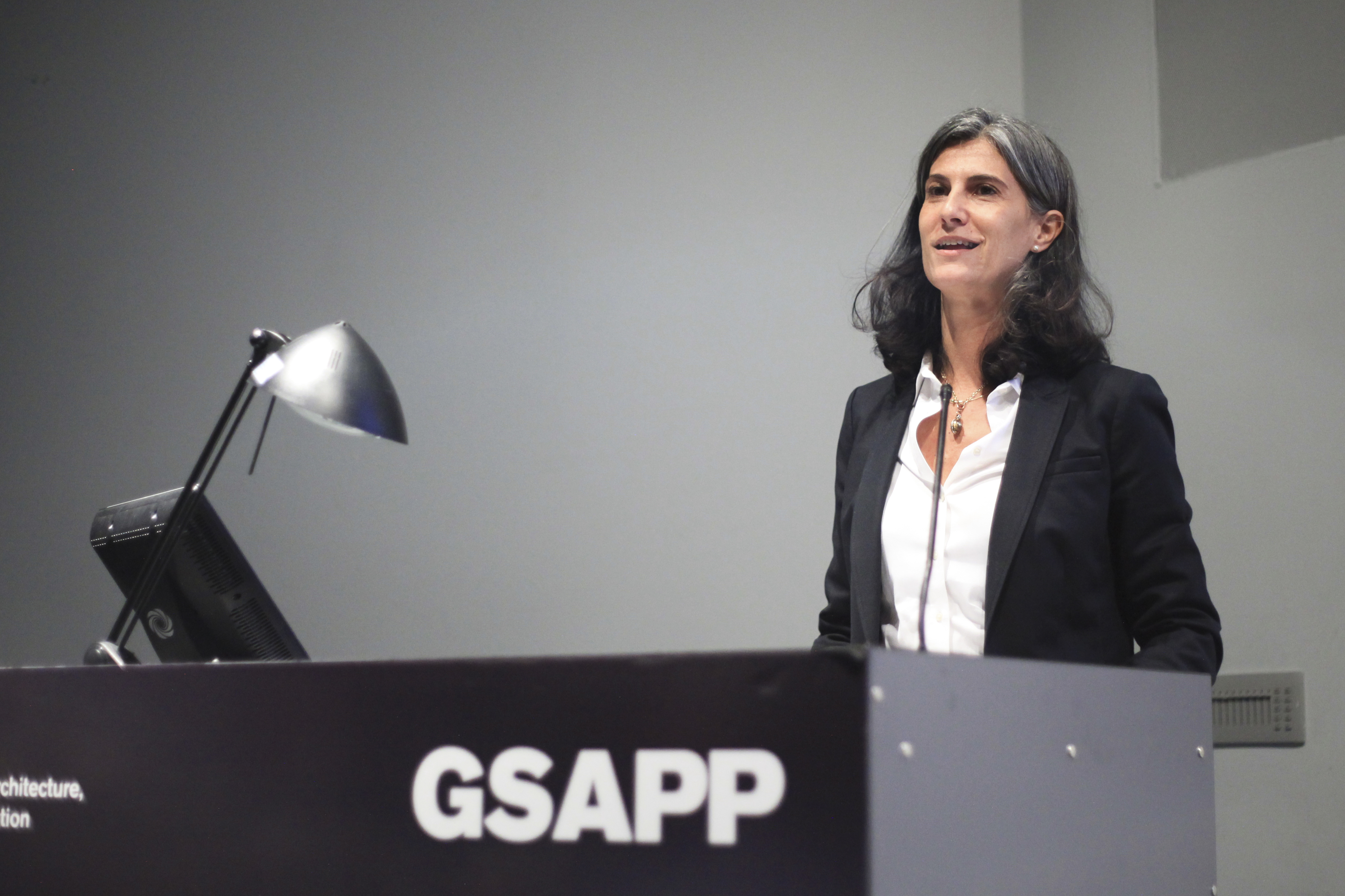 Gen Bilimci (Geneticist): Vakko Fashion Center. Istanbul Week 2013.